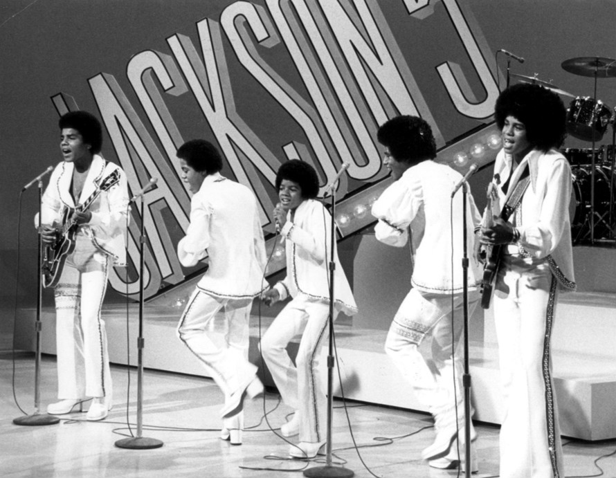 Publicity photo of the Jackson 5 from their 1972 television special.